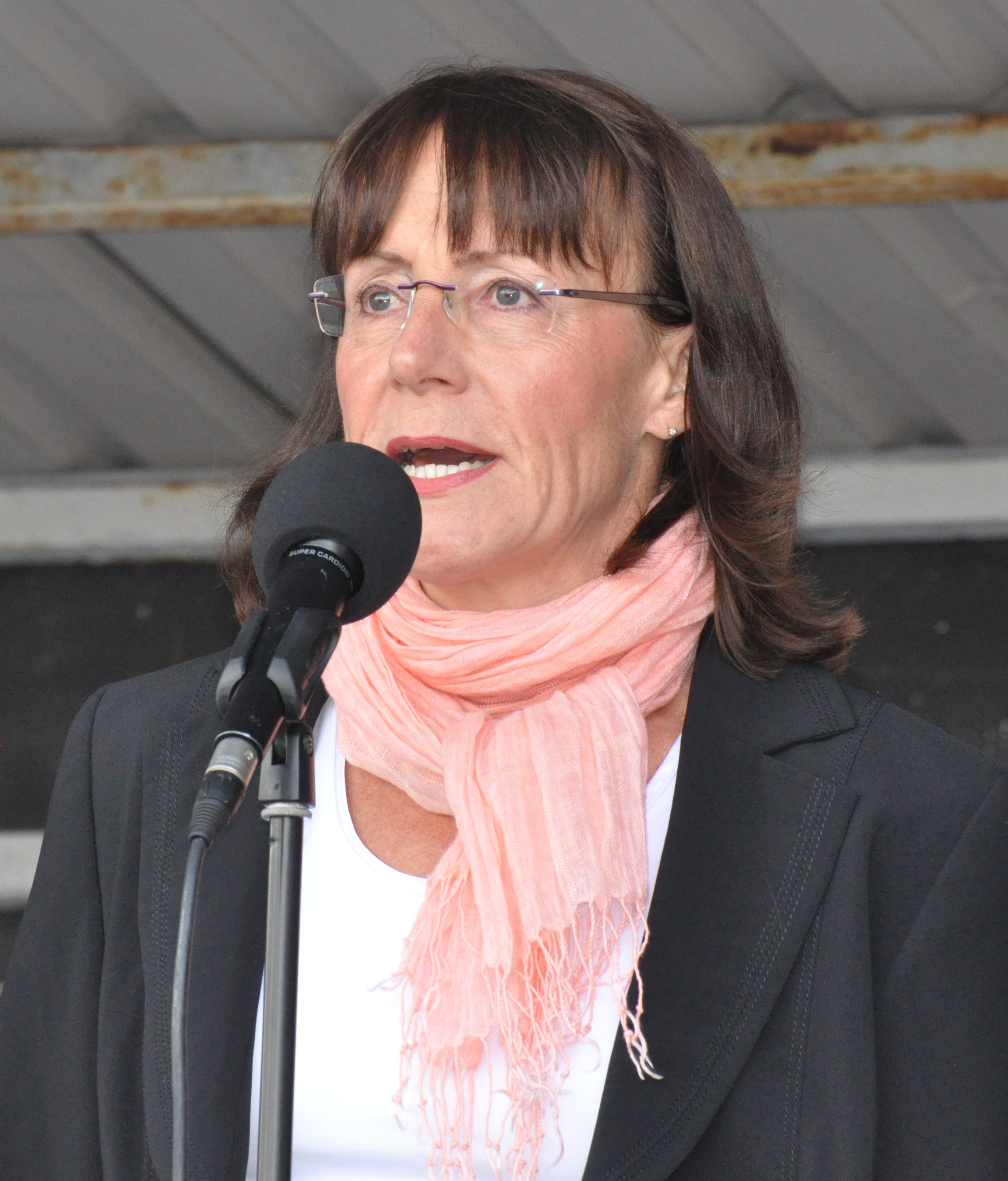 Finnish MP Pirkko Ruohonen-Lerner in Turku, 2011.